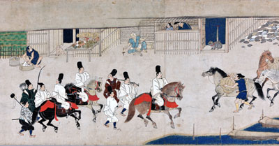 The poet Minamoto no Shitago meeting a pack horse driver.